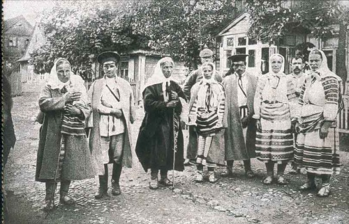 Local people in Kobryn, Polesie, Belarus